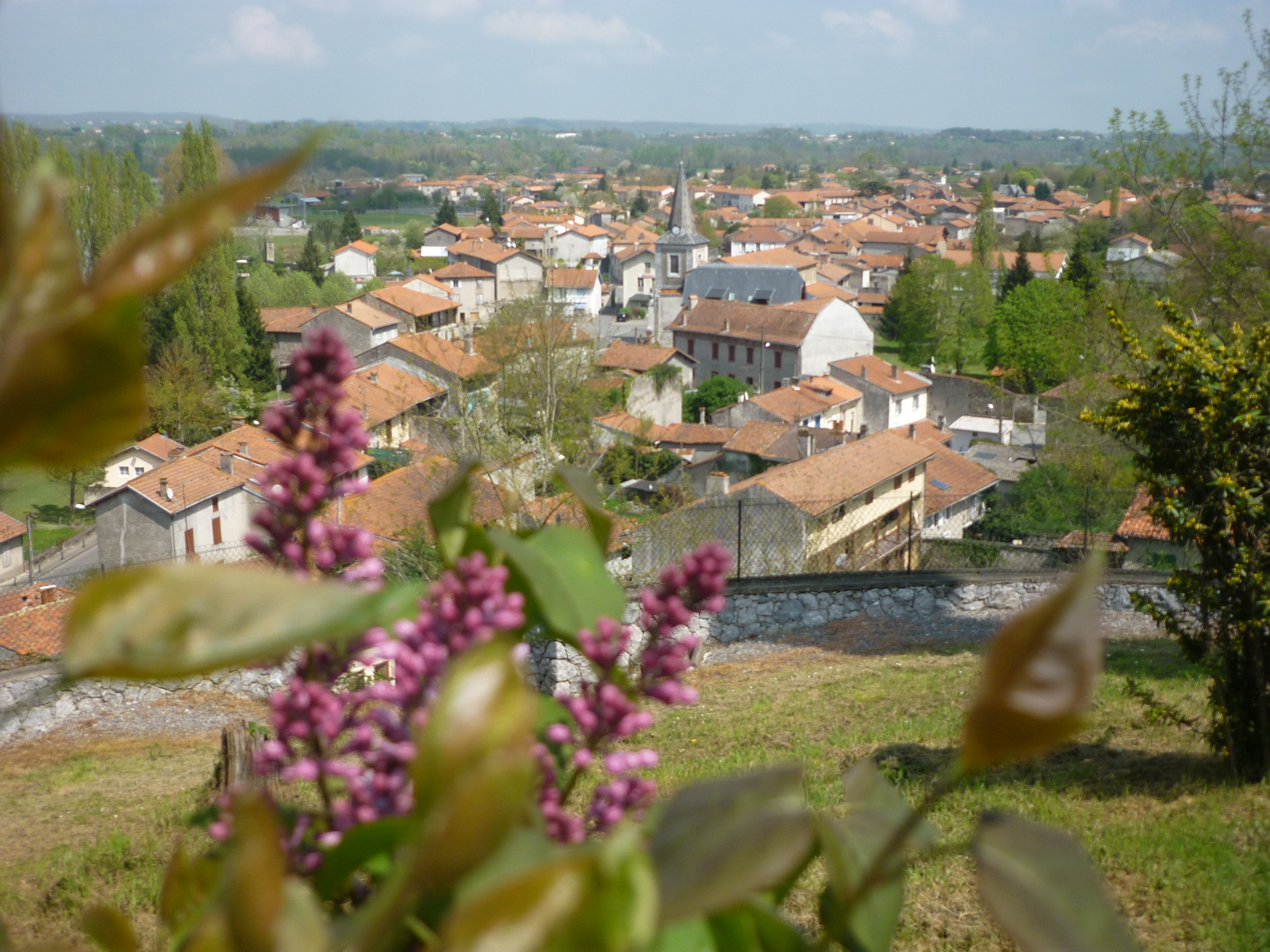 From Notre-Dame des sept douleurs Chapel, view of Miramont-de-Comminges, Haute-Garonne, France.